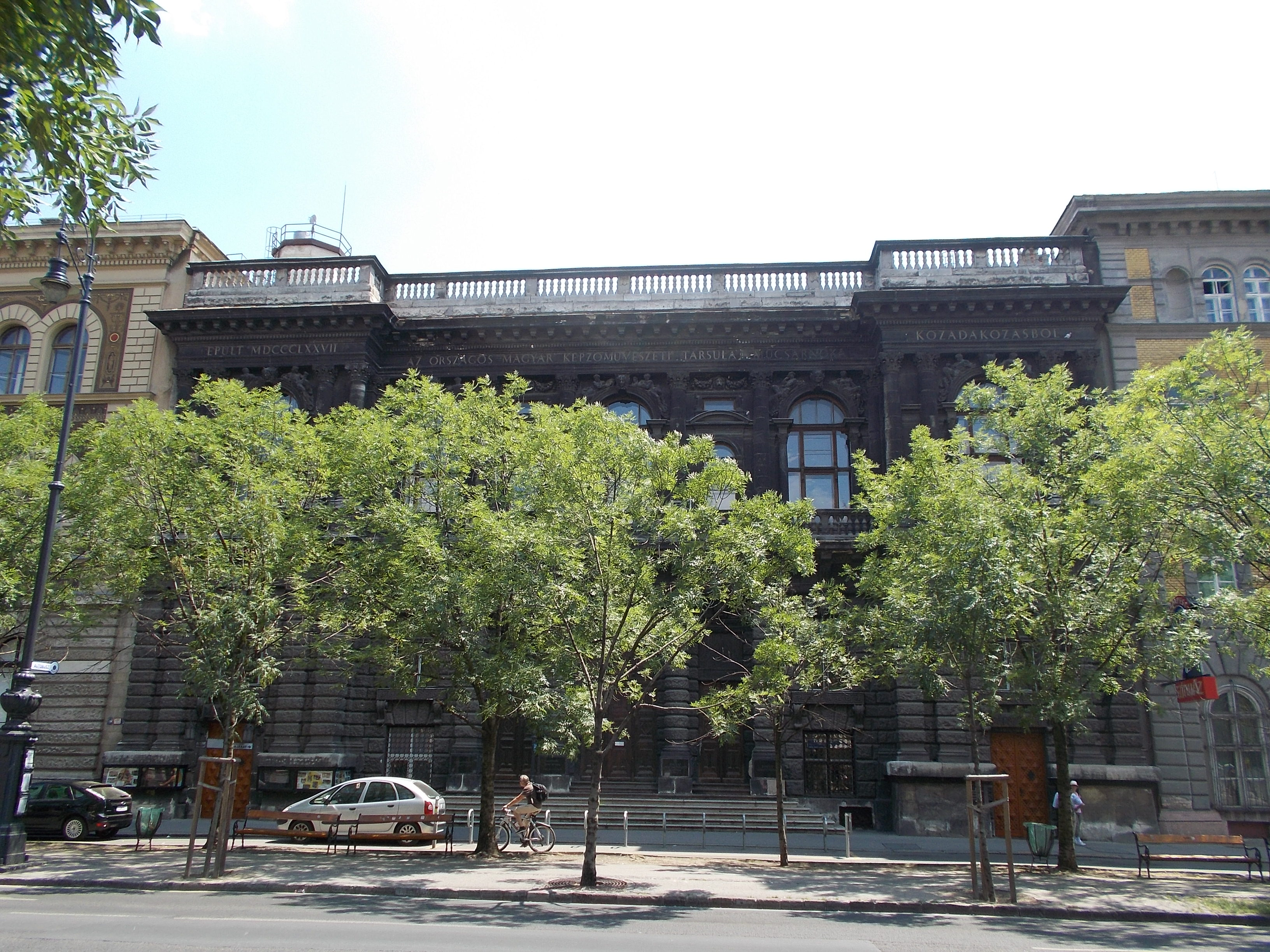 The Hungarian University of Fine Arts, the Budapest Puppet Theatre, formerly the State Puppet Theatre. - 69 Andrássy Avenue, Budapest District VI., Hungary